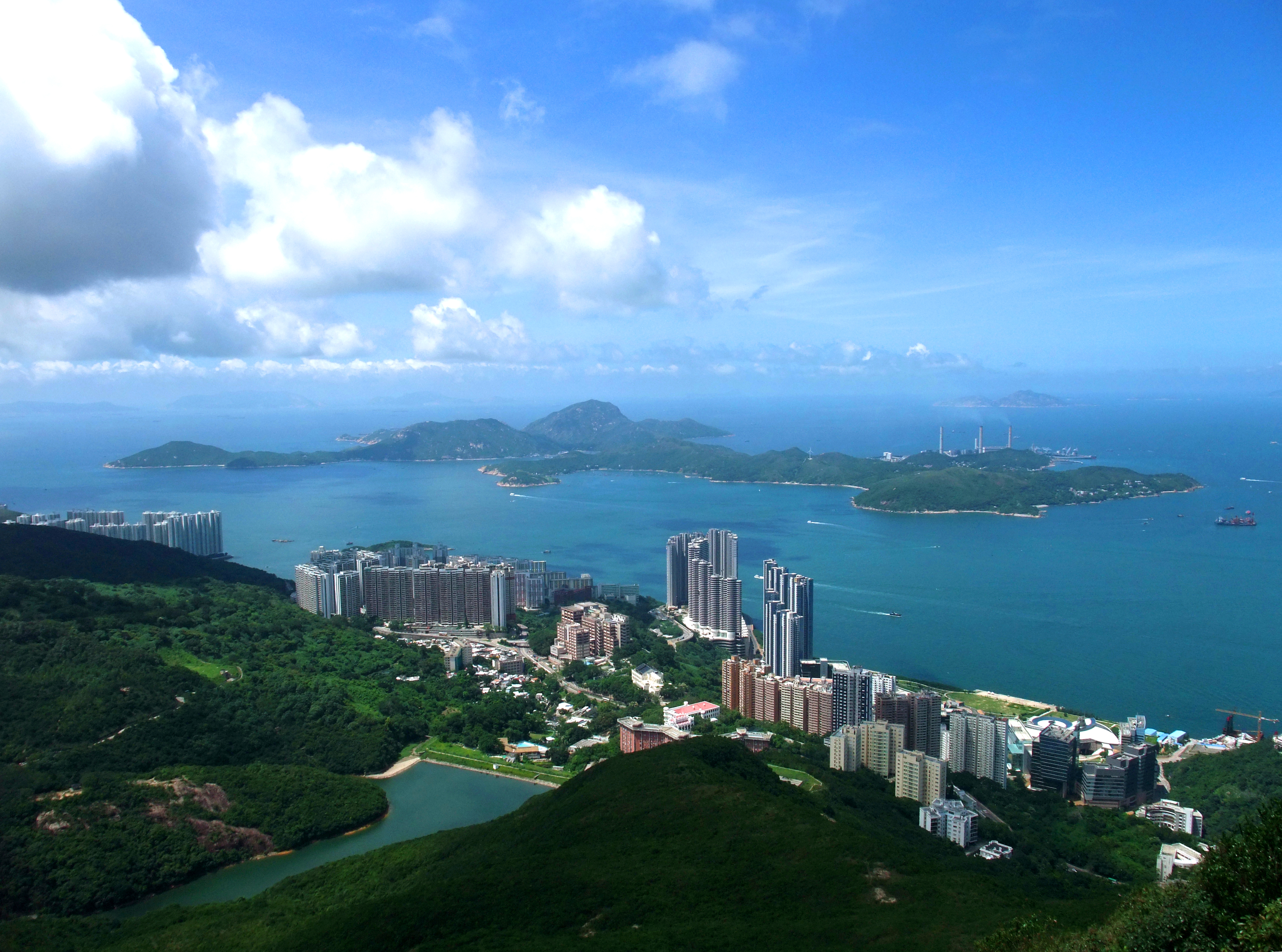 Photo of Lamma Island and Pok Fu Lam